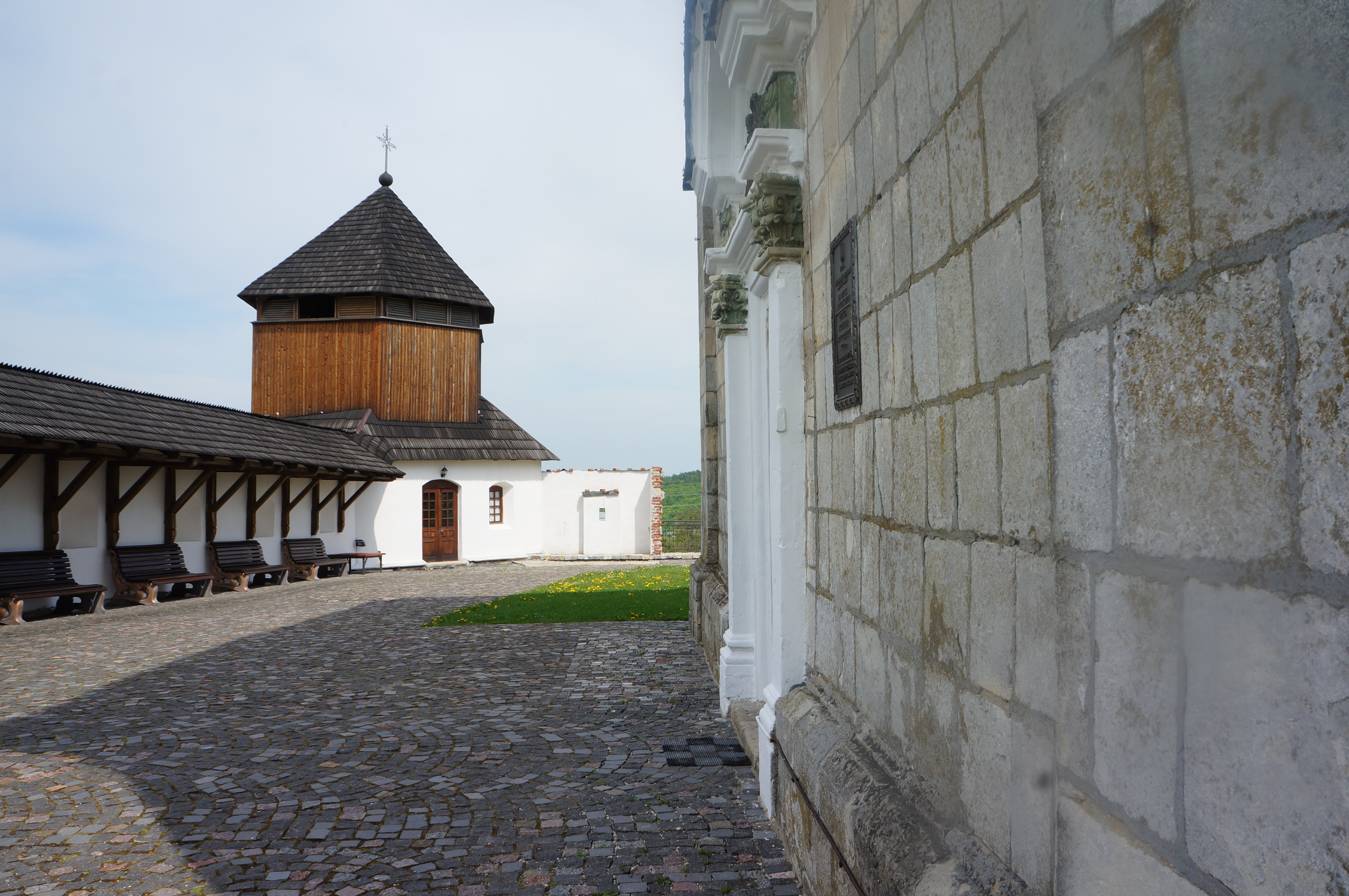 Reconstruction of Halych fortress in Krylos